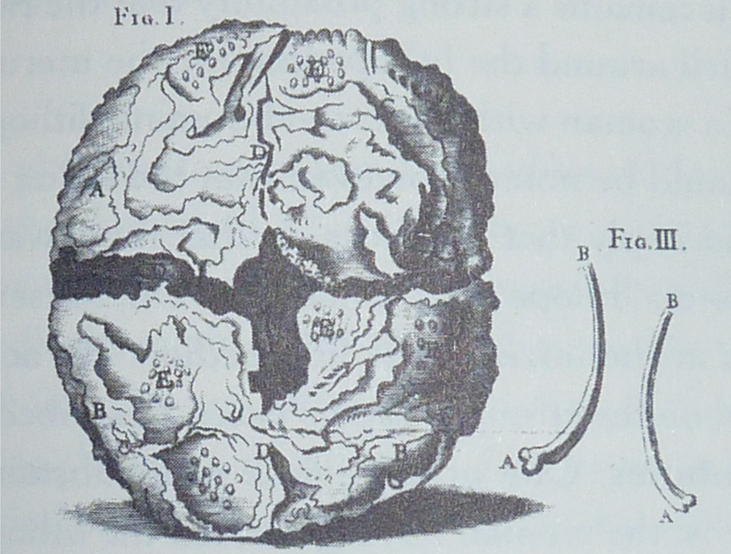 das Steinkind von Leinzell, Philosophical Transactions of the Royal Society of London 31, 1720-23